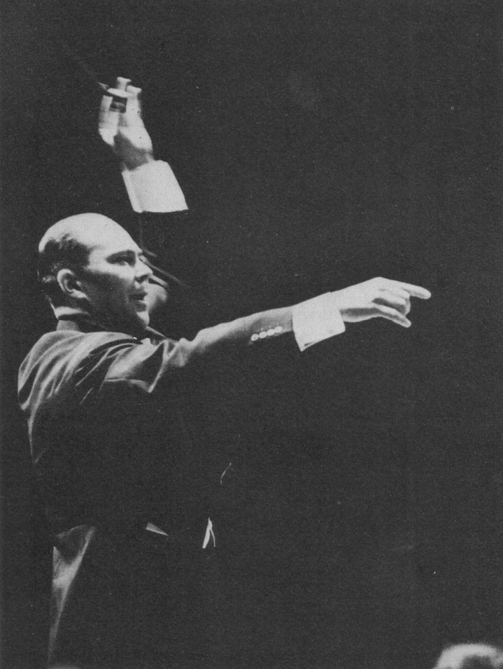 Photograph of the Finnish conductor Paavo Berglund (1929–2012).